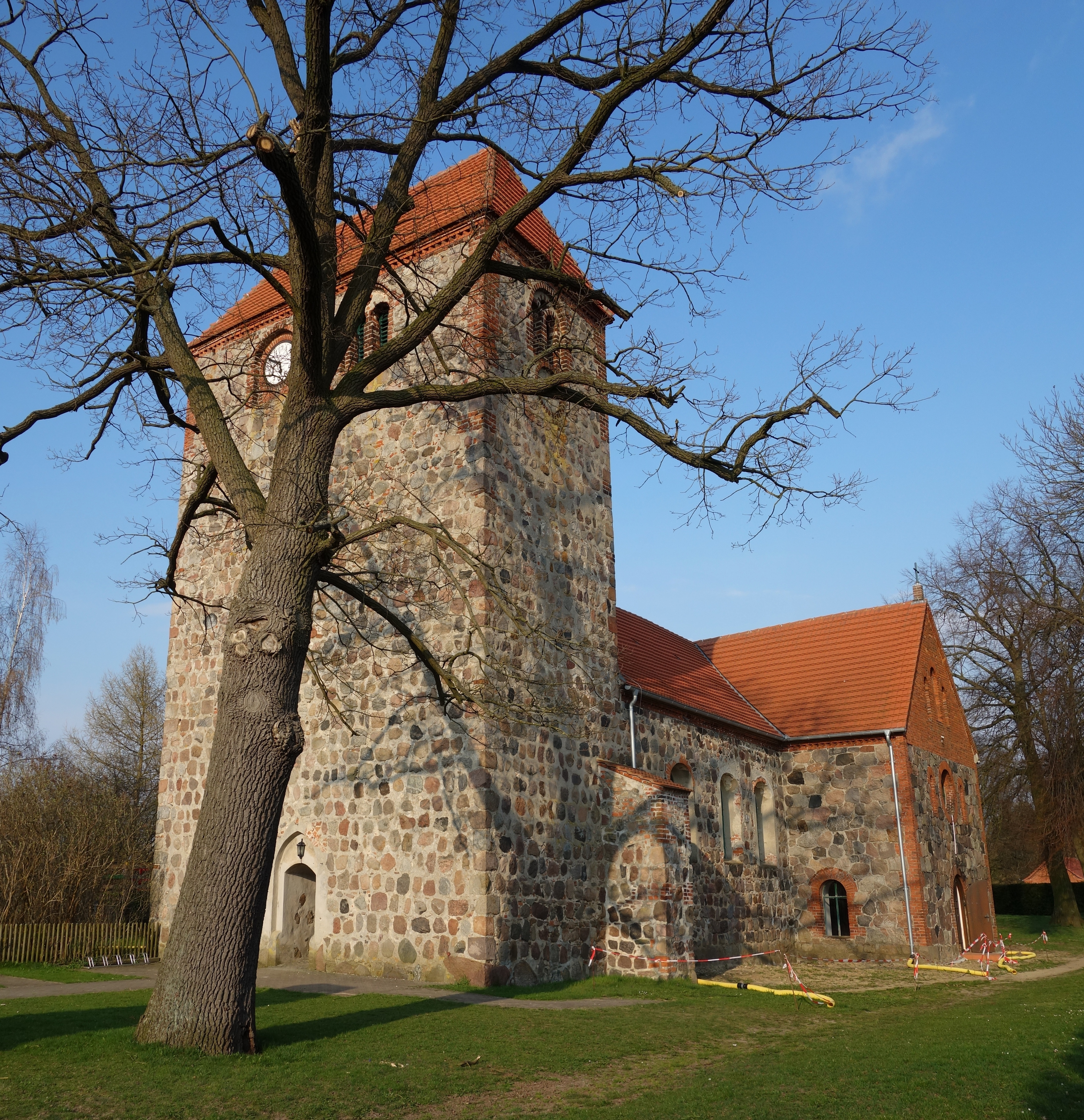 South-western view of church in Breddin municipality, Ostprignitz-Ruppin district, Brandenburg state, Germany